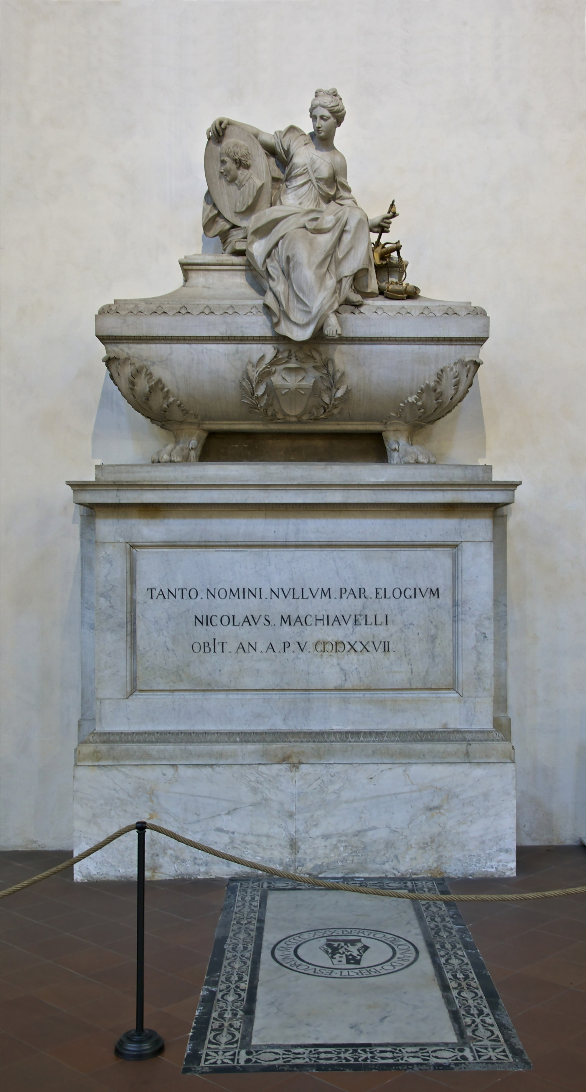 Niccolò Machiavelli tomb in the Santa Croce basilica in Florence, Italy.